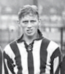 Swedish international footballer Tore Keller. In lineup before a game with his club IK Sleipner, around 1935